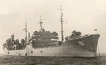 USS Saugatuck in Tokyo Bay